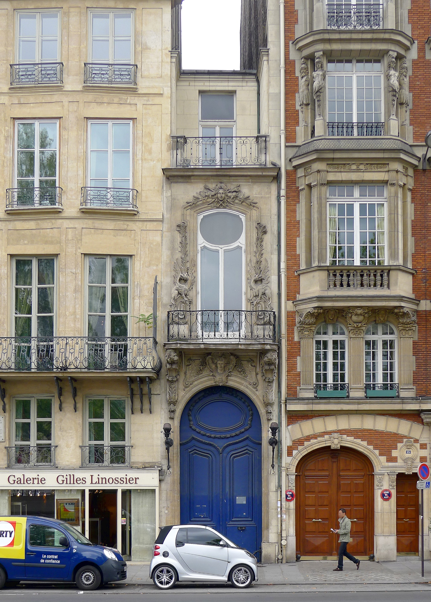 Quai Voltaire (n°13) - Paris